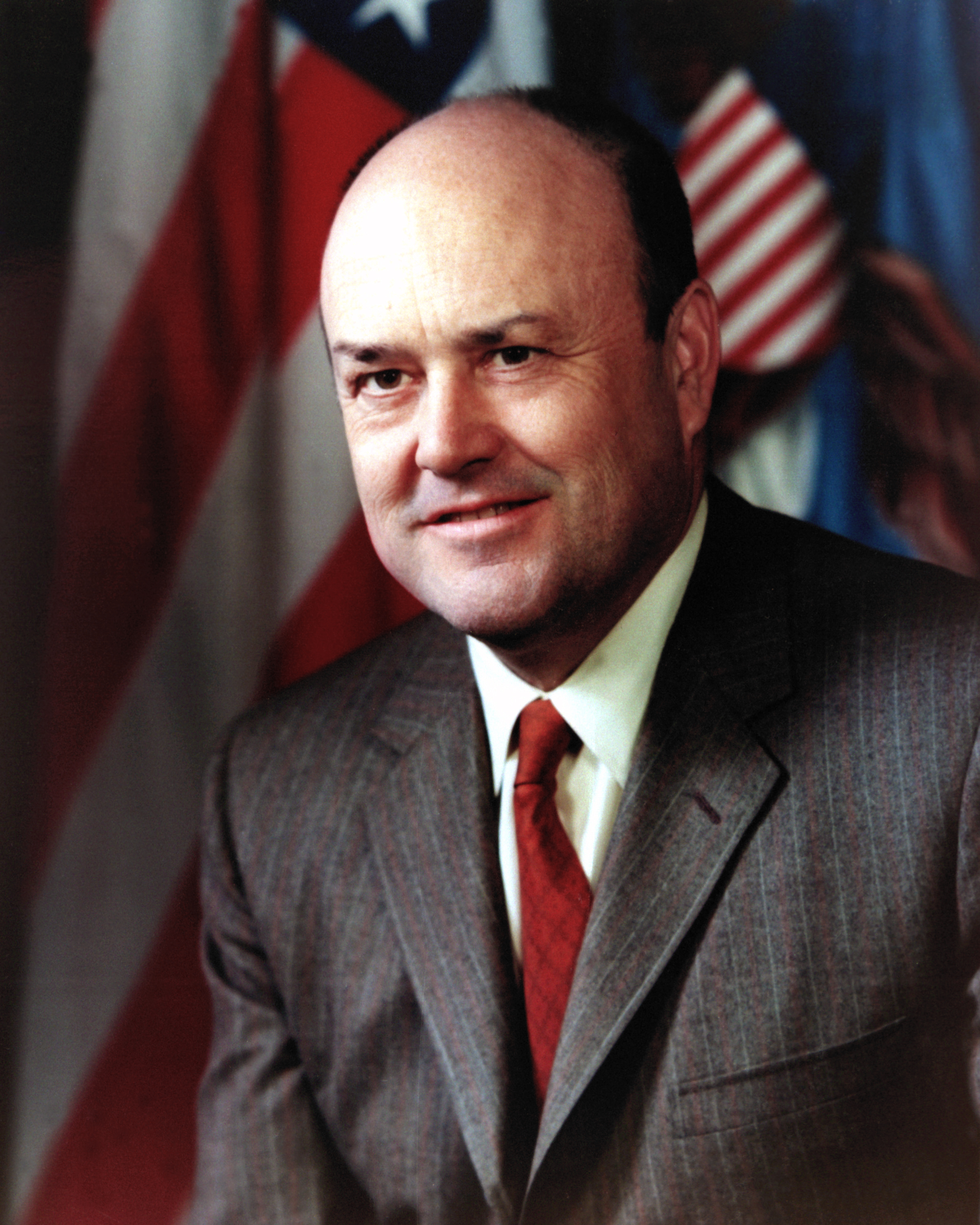 Mevin Laird, former Secretary of Defense of the United States.